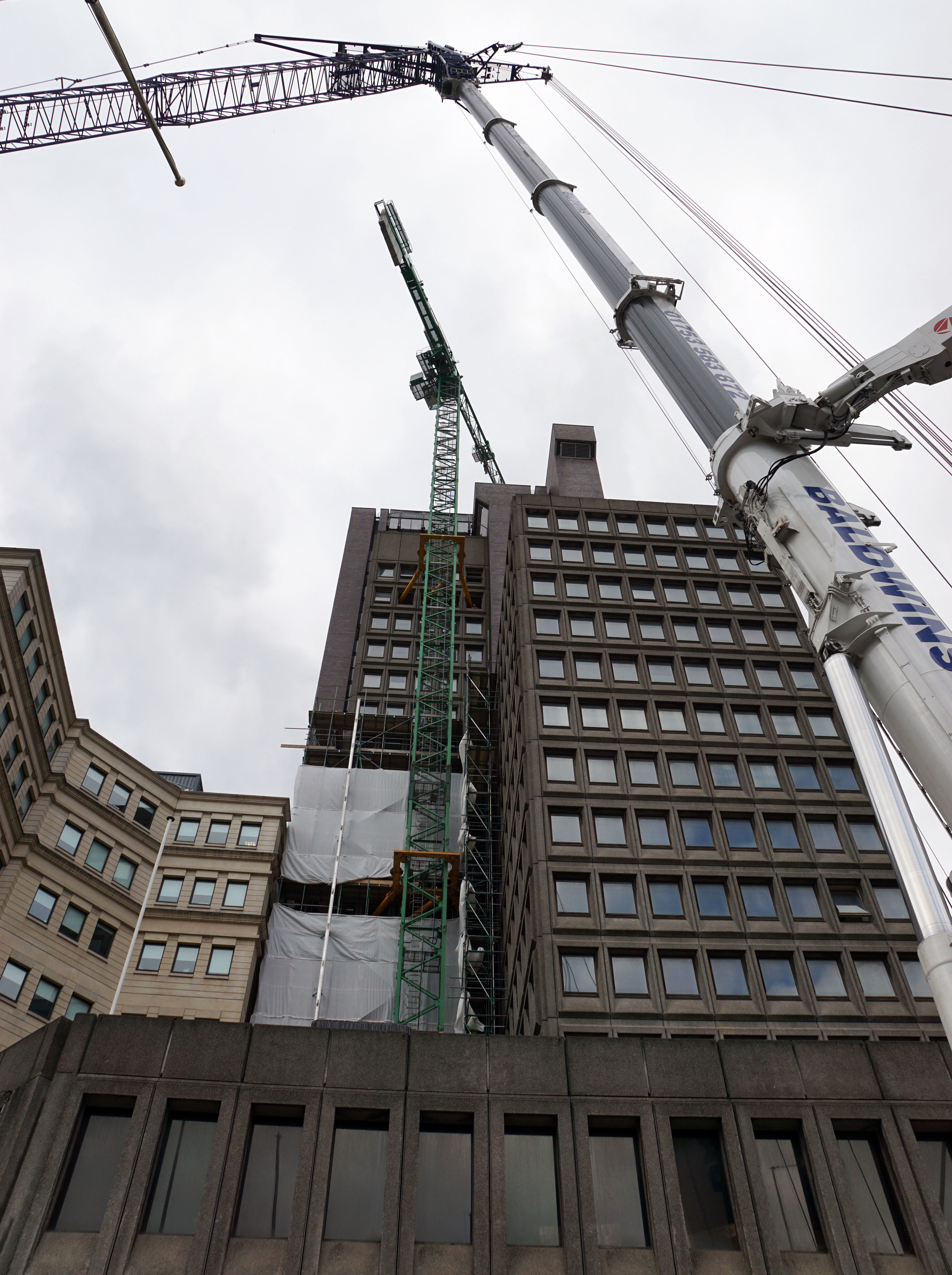 Just after erection of the (green) tower crane by a mobile crane for the demolition of 103 Colmore Row, Birmingham, England.